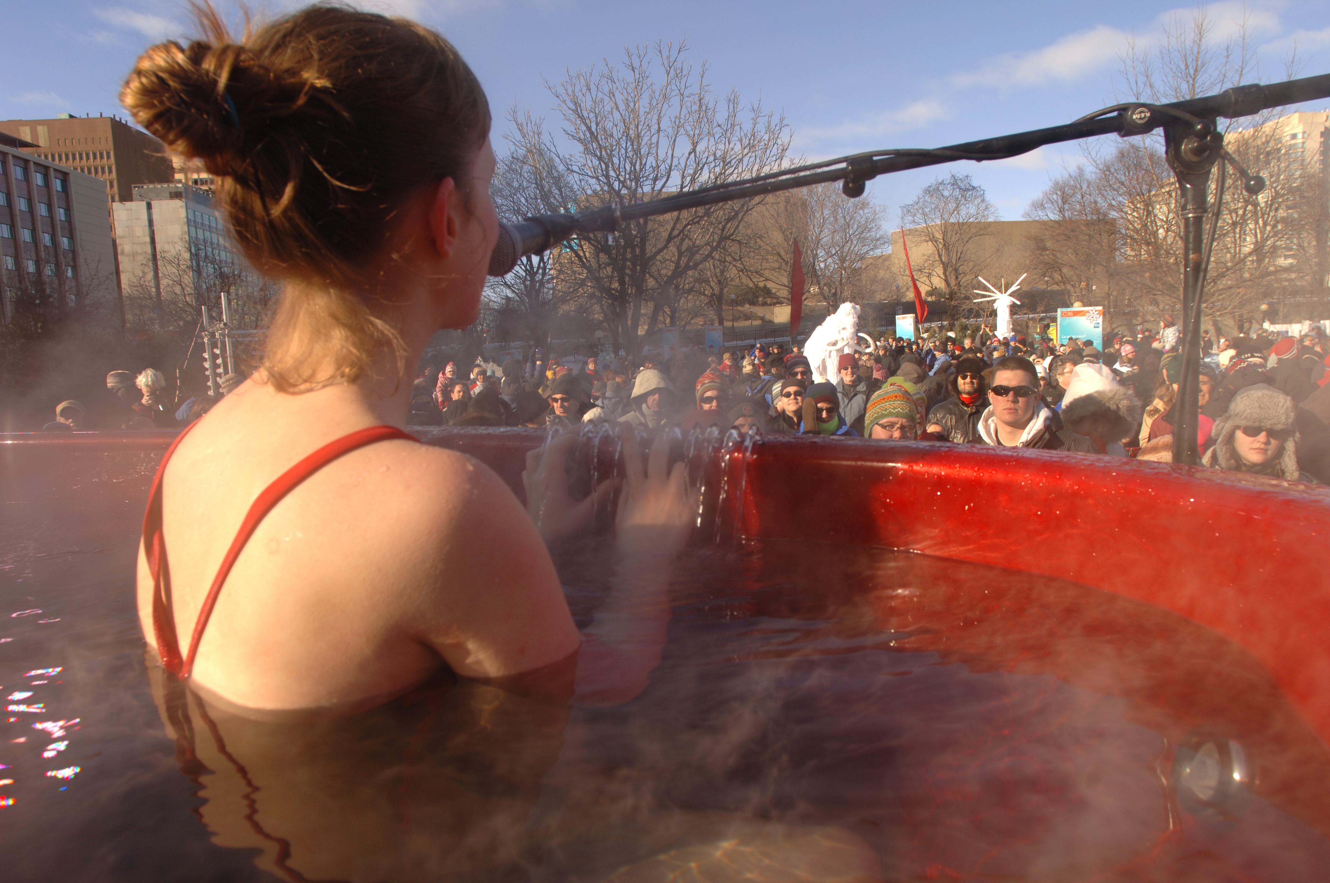 H2Orchestra performing for the National Capital Commission on Balnaphone (hydraulophone built into a SpaBerry) at Winterlude 2010